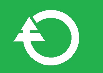 Flag of Motegi Tochigi